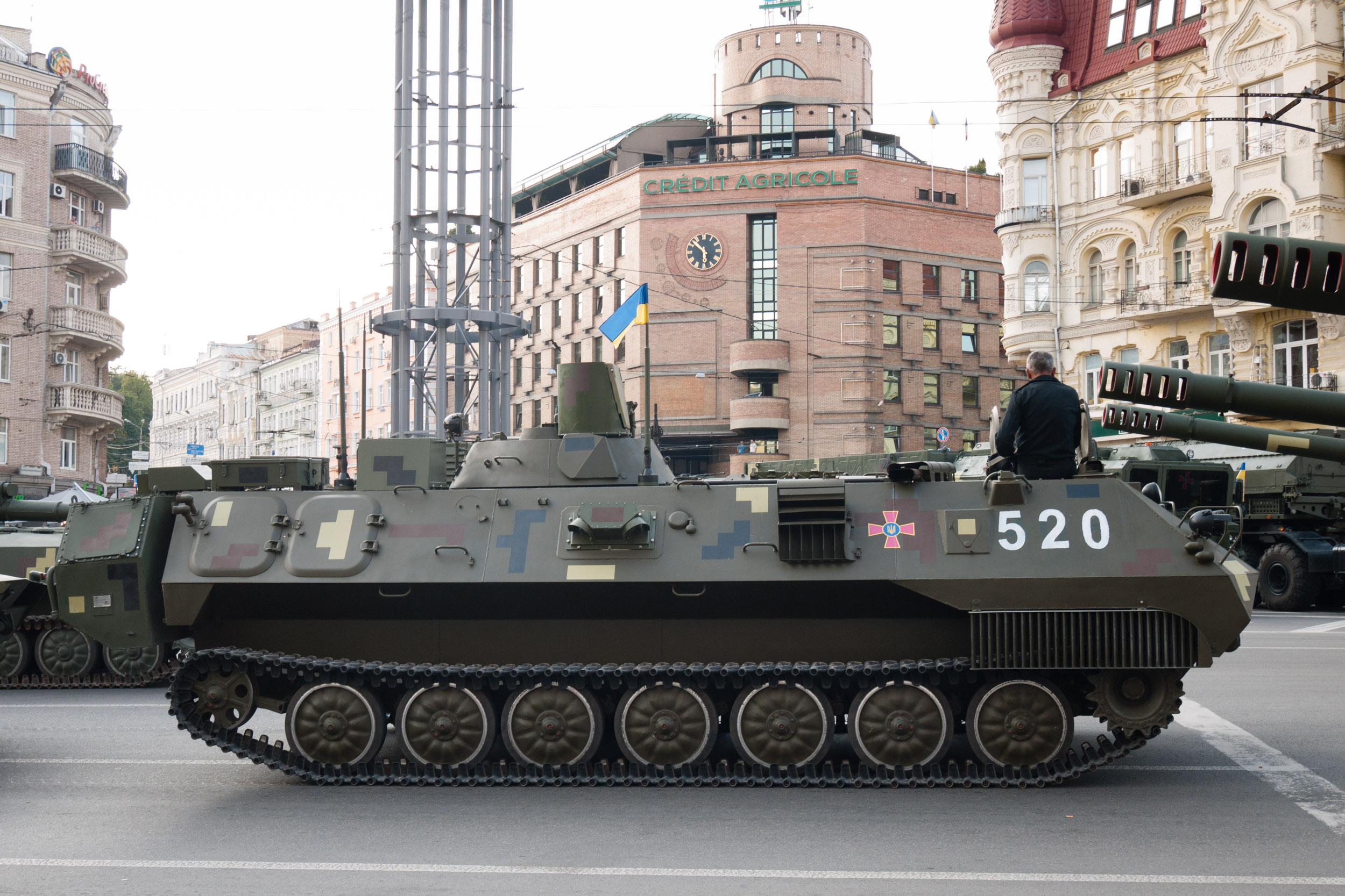 1V26-1 Obolon-A artillery command vehicle, rehearsal for the Independence Day military parade in Kyiv, 2018